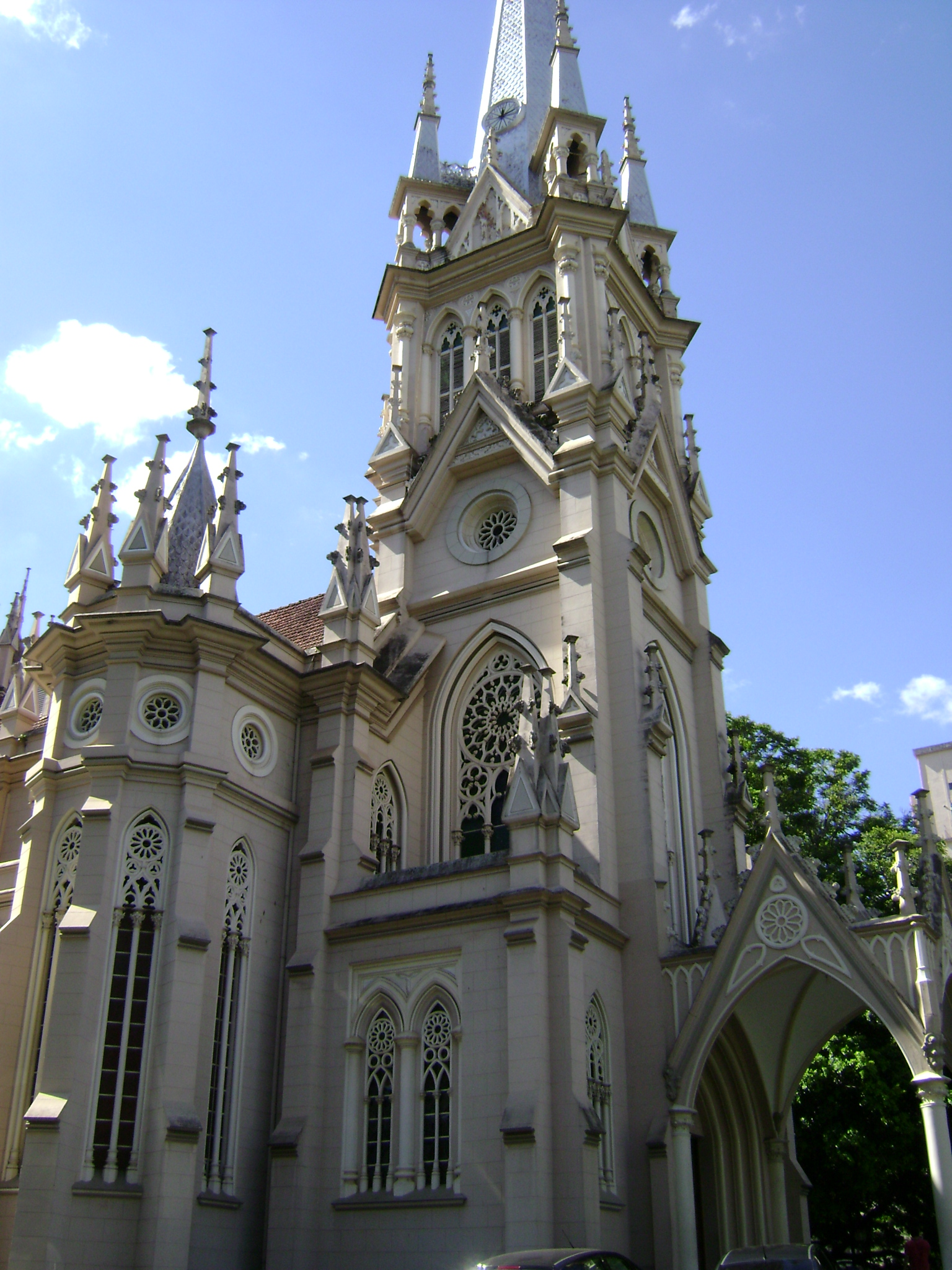 Igreja da Boa Viagem